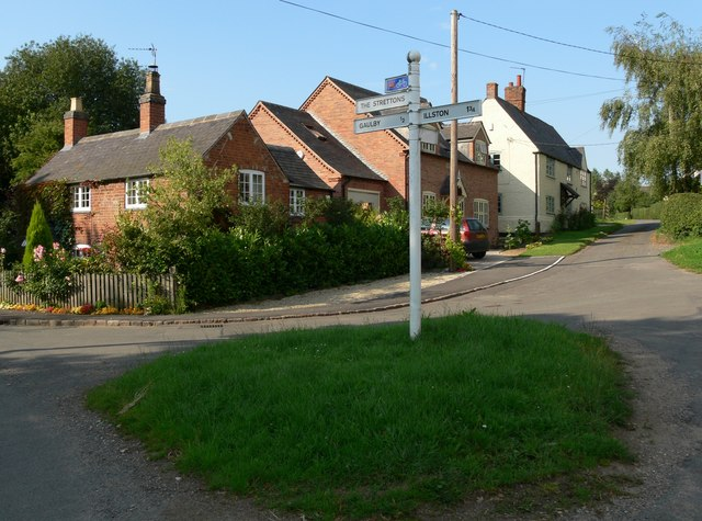 King's Norton Junction of Main Street and Norton Lane.